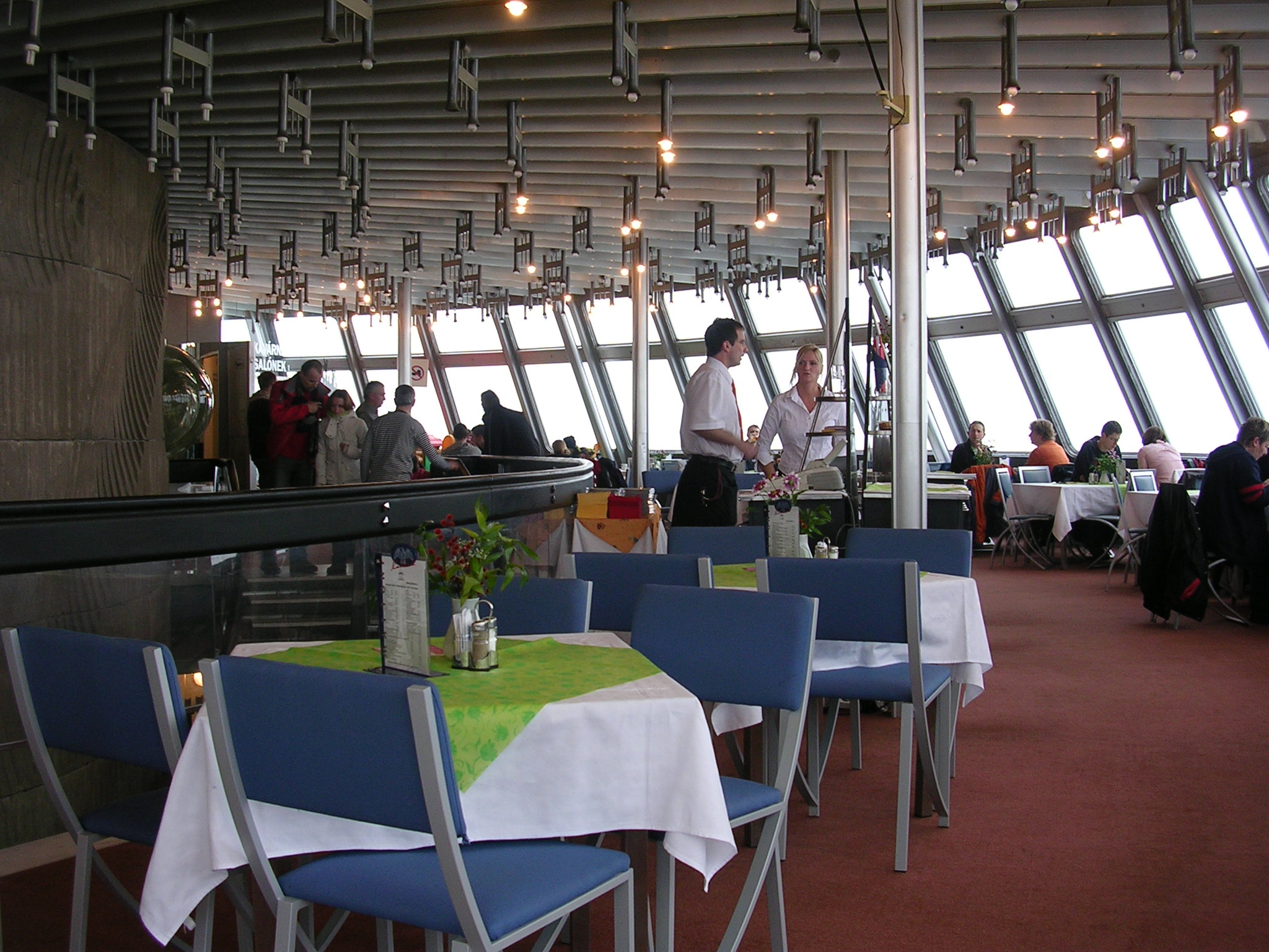 Ještěd Tower Restaurant, Liberec, the Czech Republic.